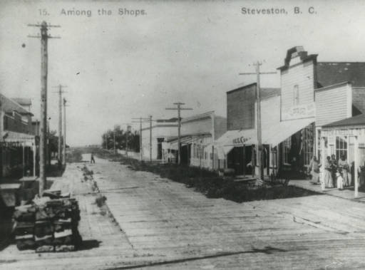 Views of streets and shops at Steveston, B.C.